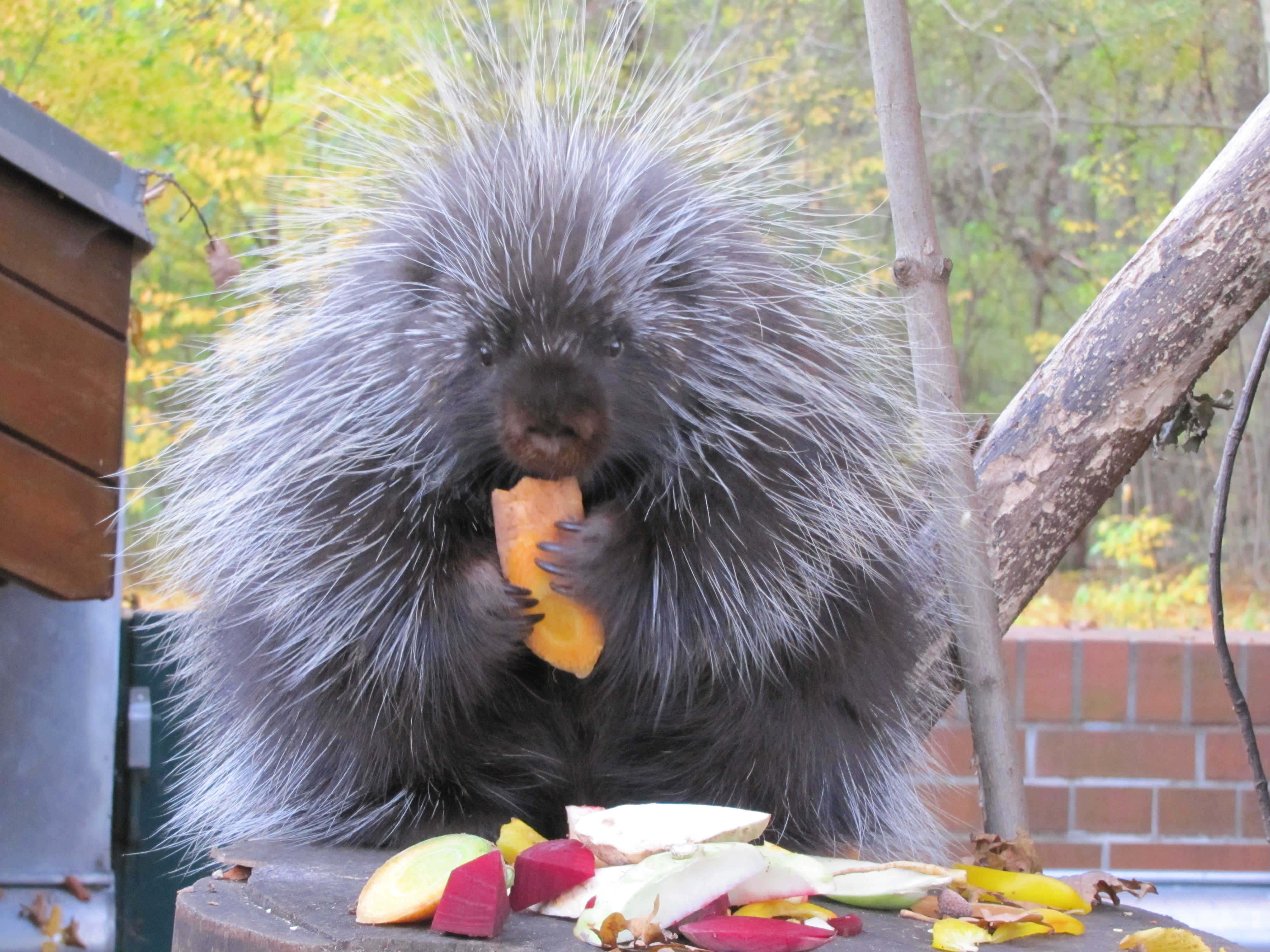 North American porcupine (Erethizon dorsatum) in Zoo Cottbus